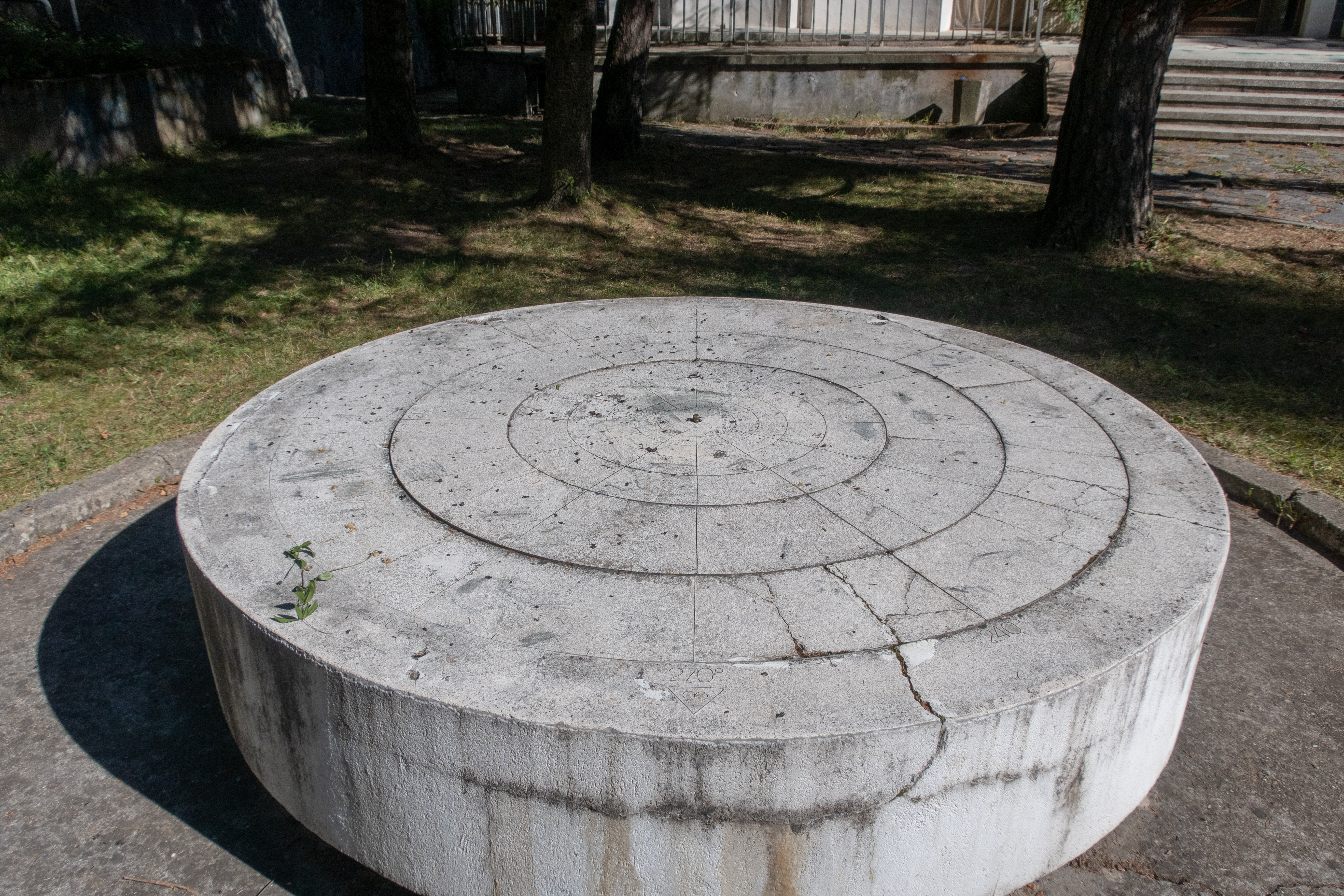 Smolyan Planetarium